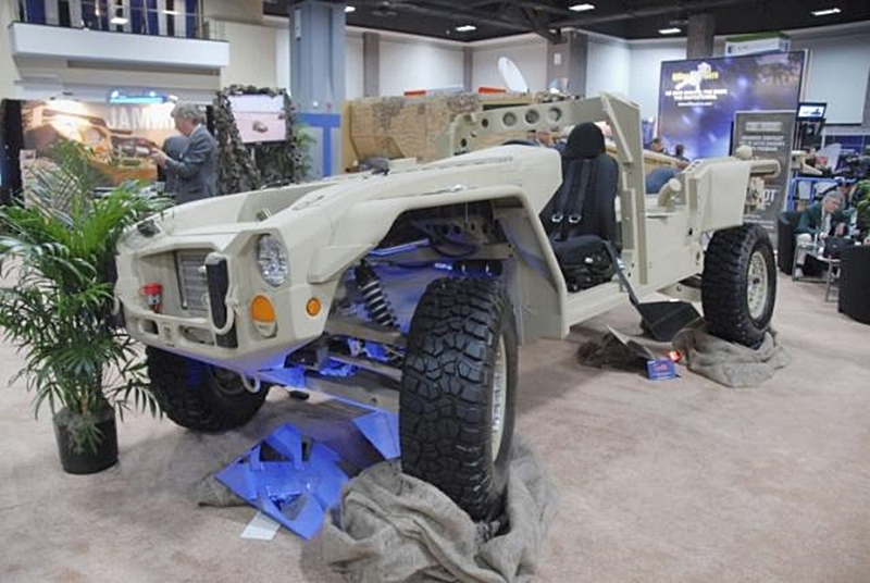 The rights to produce the JAMMA design were acquired from California based TAC-V by the then Force Protection and a vehicle was first shown publically as a Force Protection product in February 2010 at the AUSA Winter Convention